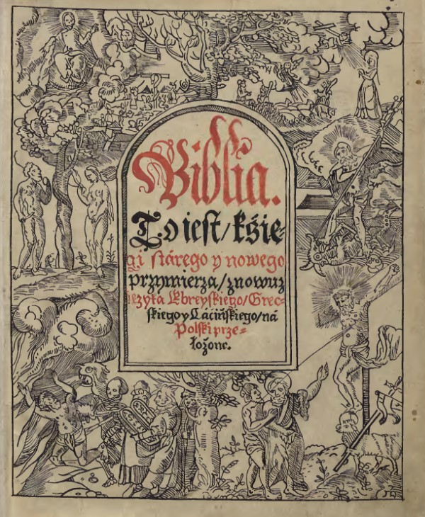 Old-Polish "Biblia Nieświeska" or "Nesvizh Bible" (1572) cover page